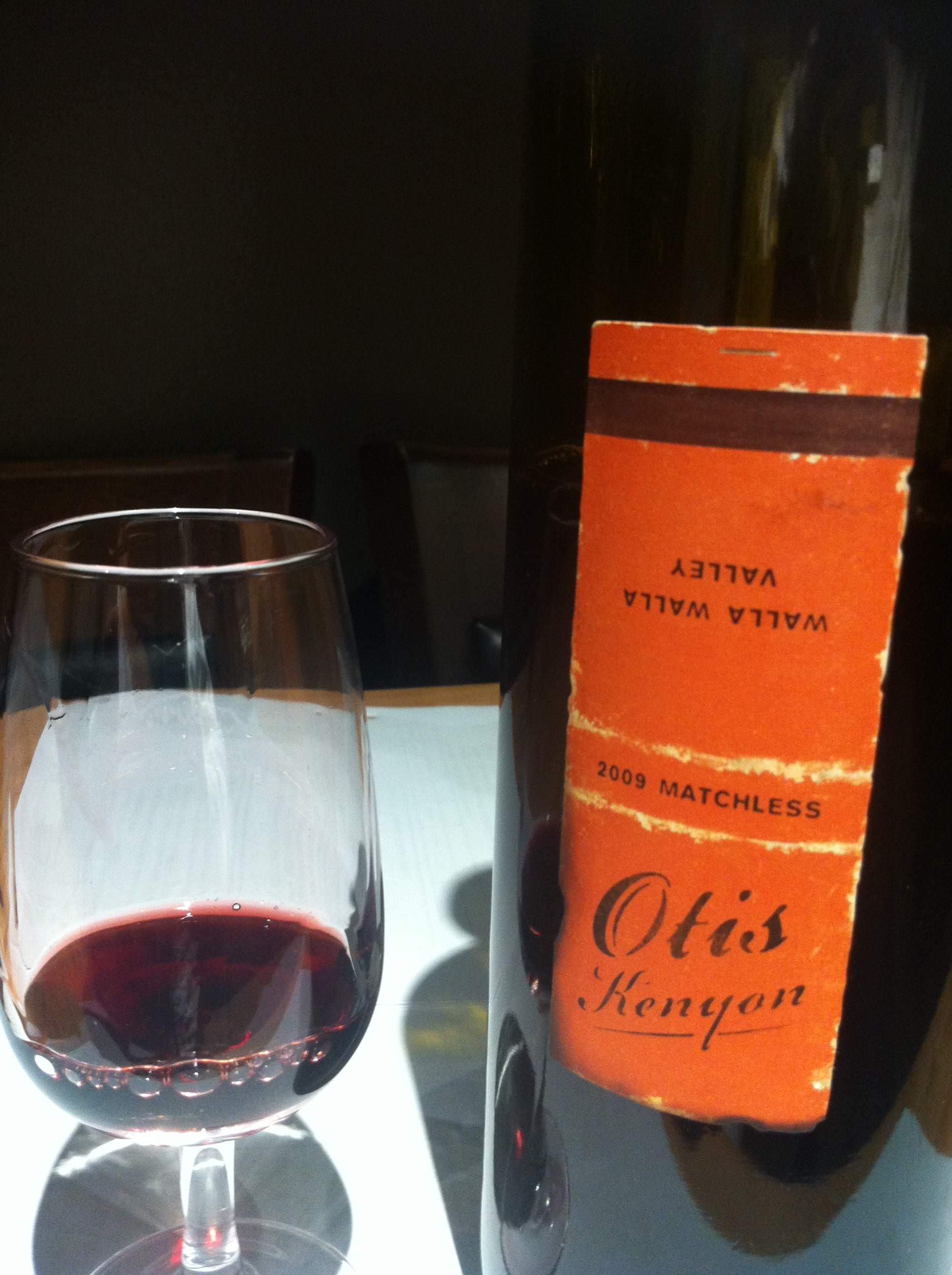 A Washington state Cabernet Sauvignon/Merlot blend from the Walla Walla AVA